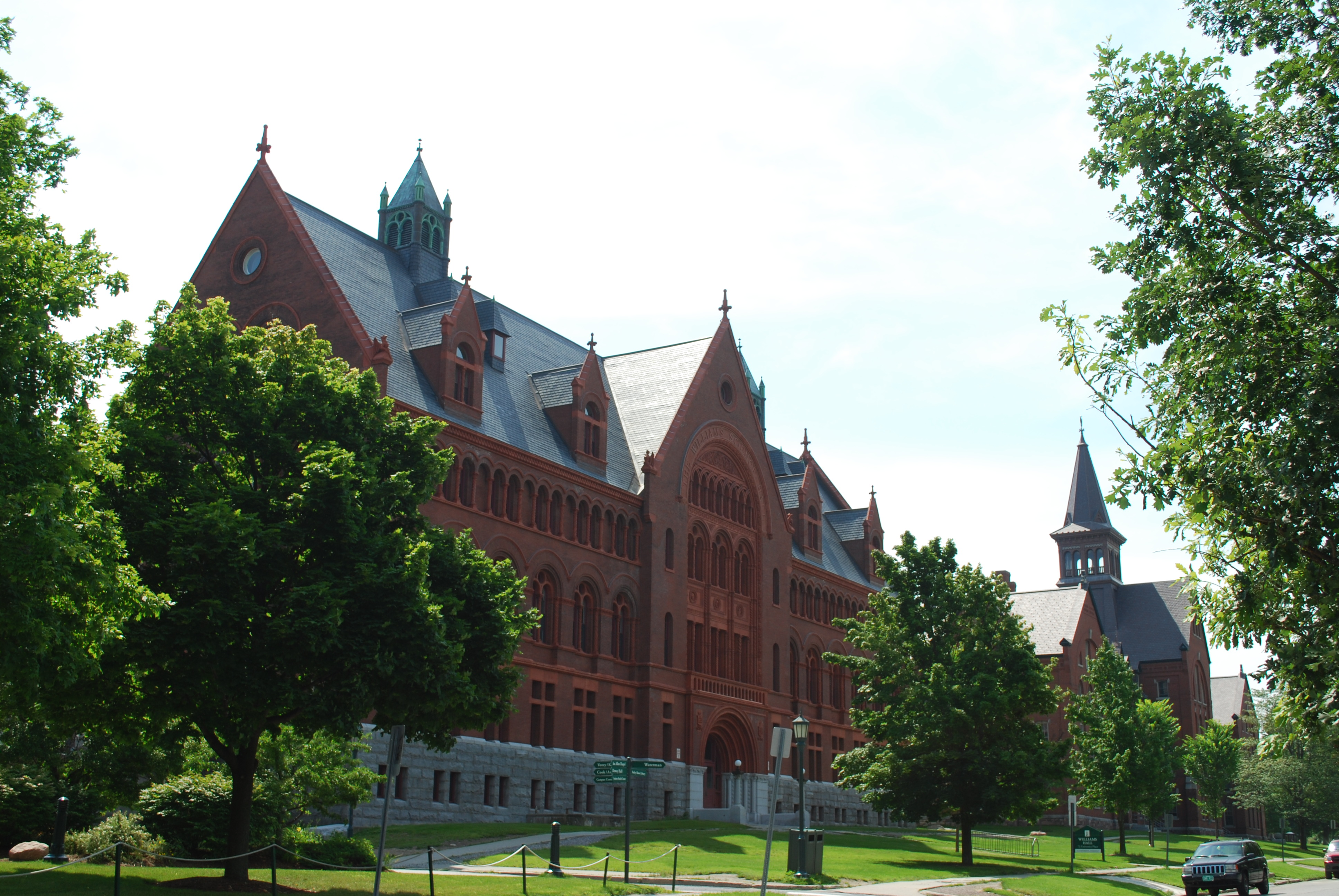 Williams Hall on the UVM campus.